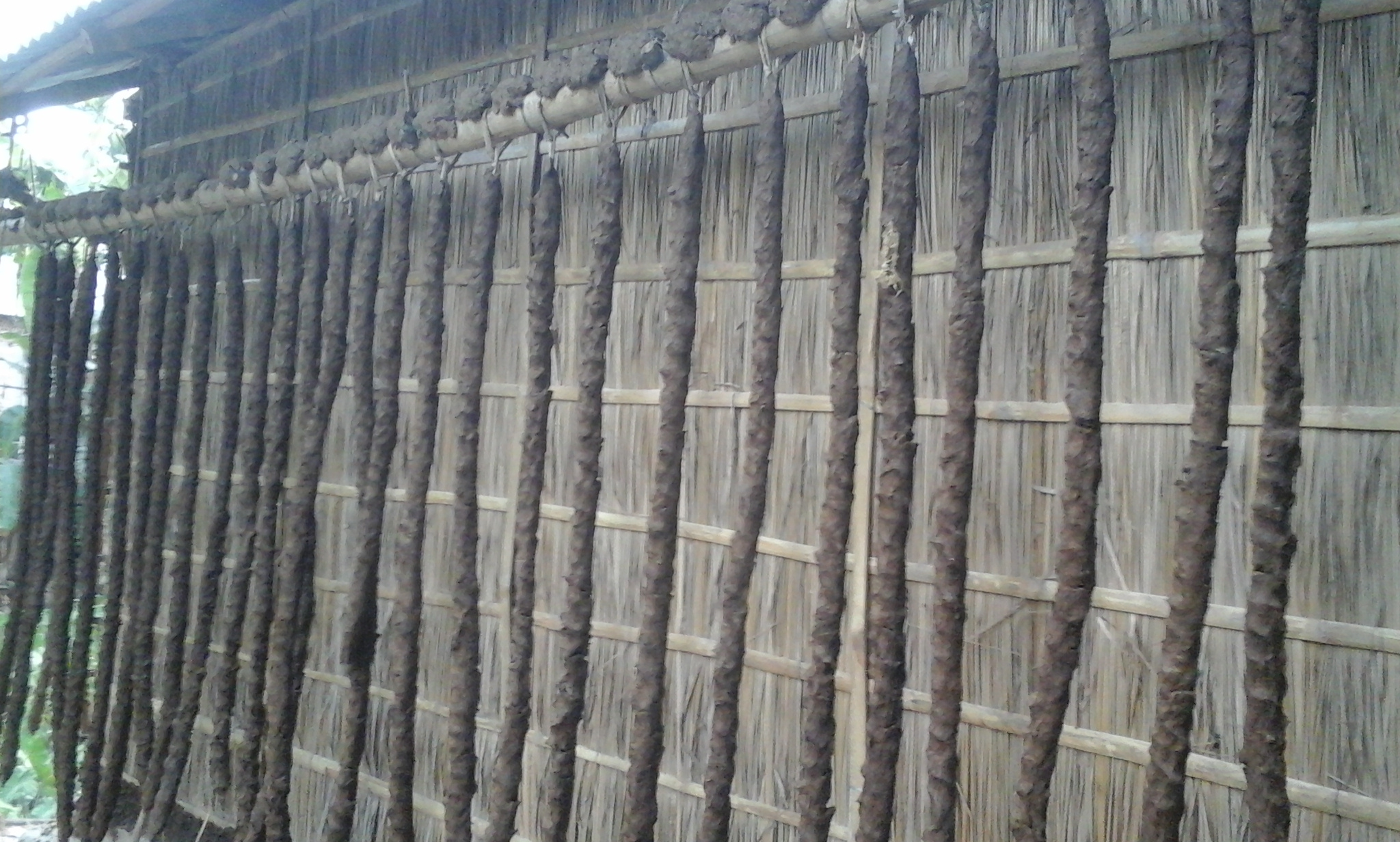 It's traditional Cow dung fuel of Bangladesh .